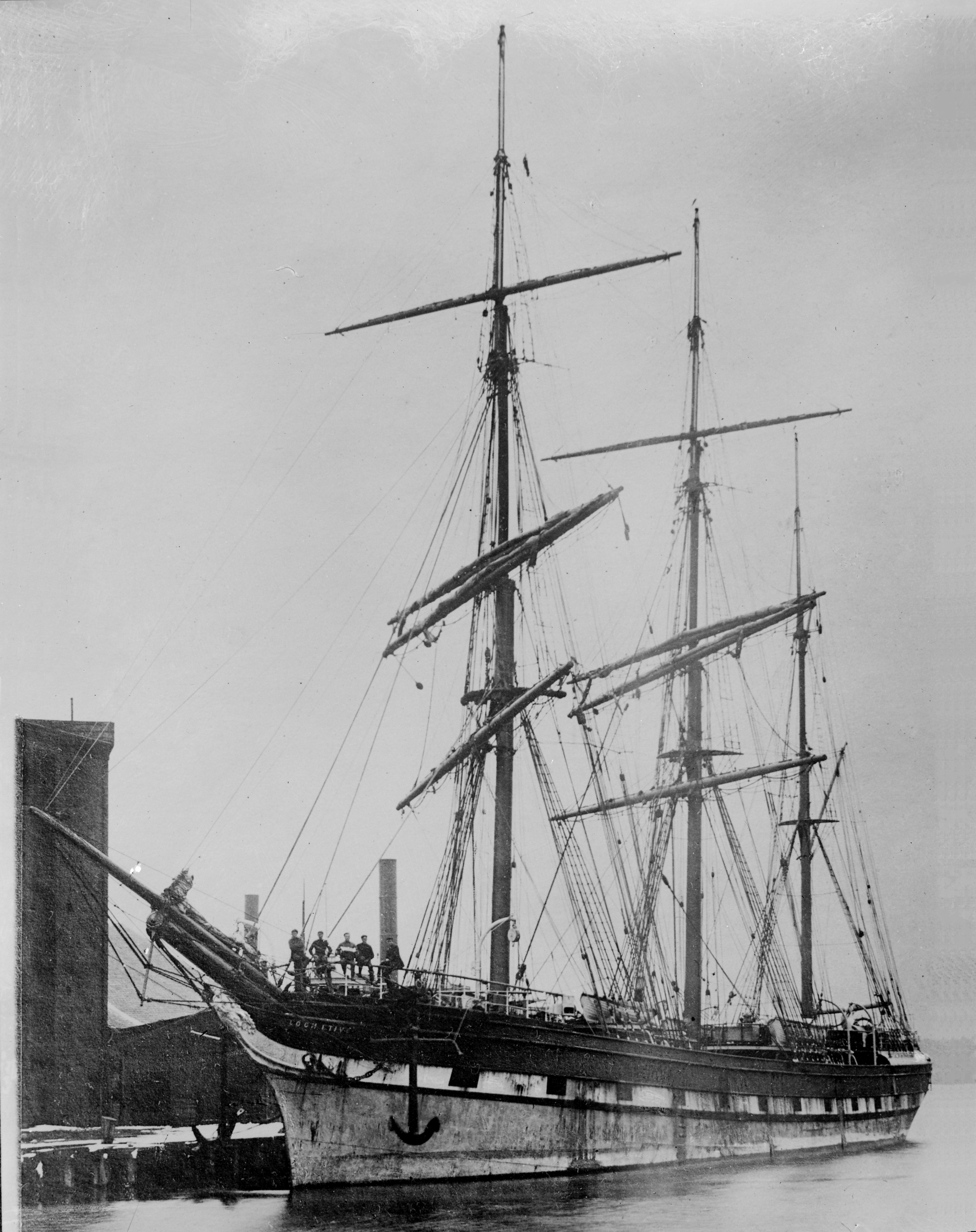 Original caption: “LOCH ETIVE”